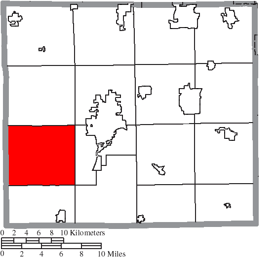 Map of the municipal and township boundaries of Wayne County, Ohio, United States, as of the 2000 census, with the location of Plain Township highlighted. Township borders are shown only in unincorporated areas in order to differentiate incorporated and unincorporated areas more clearly.